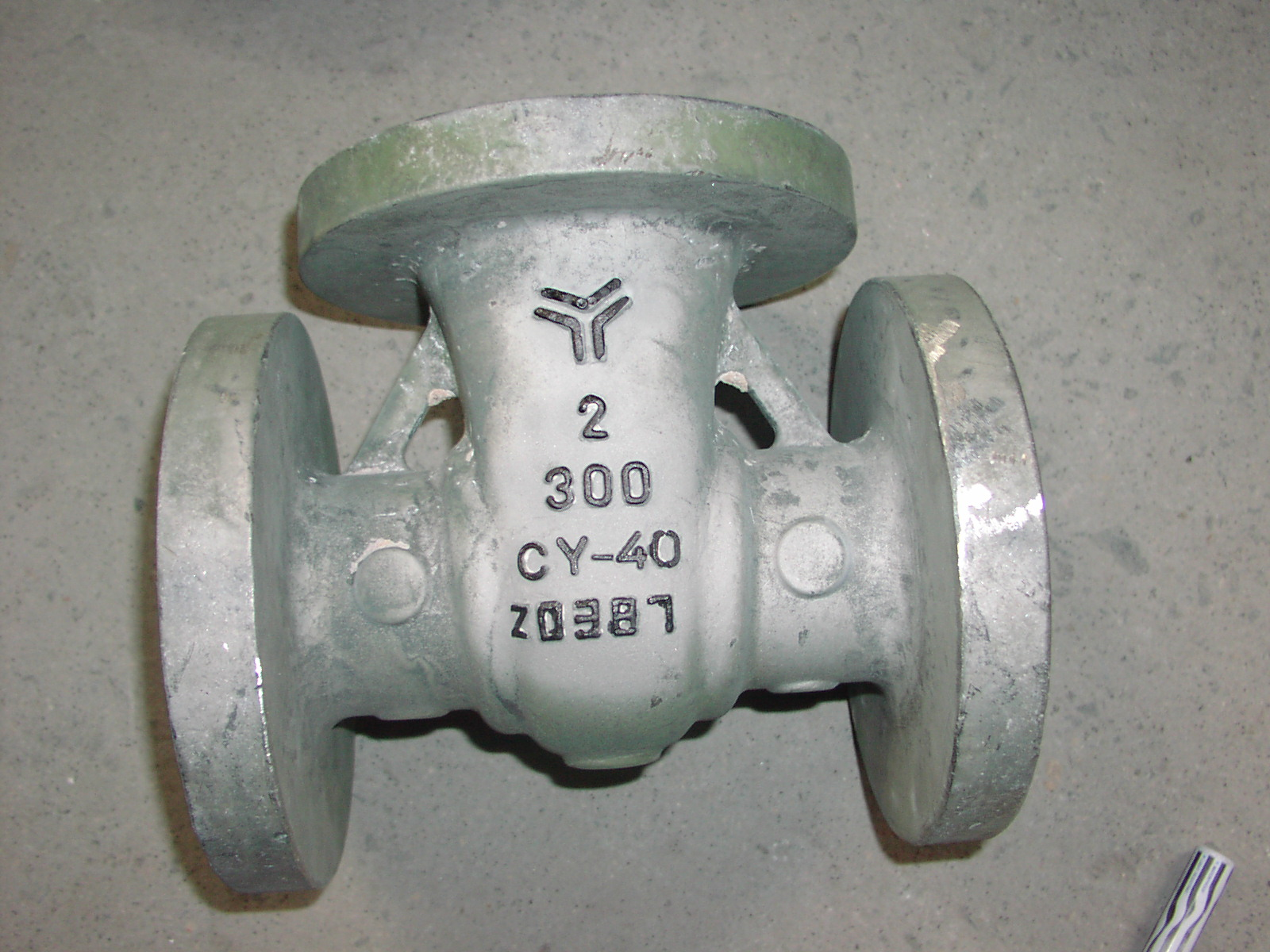 Gate valve in inconel material. Valves and are generally made of plastic or steel, the latter being the most widely used in chemical and petrochemical applications. Steel grades range from the most common type, namely carbon steel, with standard stainless steel being the second most common. Stainless steel alloys, which include nickel or copper are used in applications that require higher corrosion or heat resistance. In such cases, the most commonly used valve configurations -- ball valves, gate valves, check valves, globe valves and butterfly valves -- are often forged or cast as duplex valves, super duplex valves, alloy 20 valves, monel valves, inconel valves, incoloy valves and 254 SMO valves (6Mo valves). Titanium valves are also used in some highly corrosive applications. Titanium is not a stainless steel alloy.